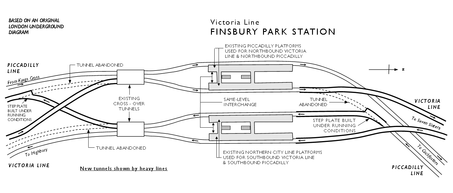 Plan layout of Finsbury Park Underground station on the London Underground showing the changes made to the station when the Victoria line was constructed.